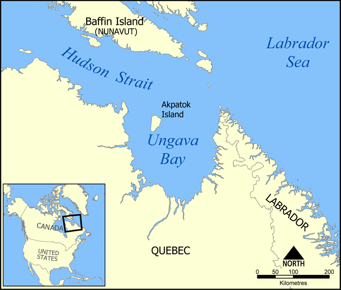 Map showing the location of Ungava Bay, including part of the Hudson Strait and Akpatok Island. Created by NormanEinstein, June 8, 2005.